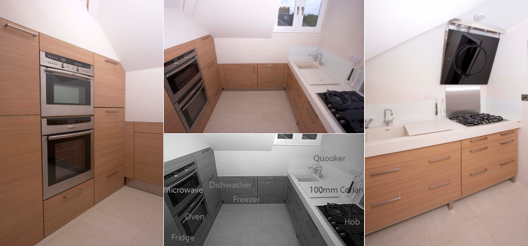 This is a fully equipped compact fitted kitchen in London. It demonstrates how a large number of appliances can be fitted into a small space while still being entirely usable. The original kitchen design is by Steinbeck-Reeves design.